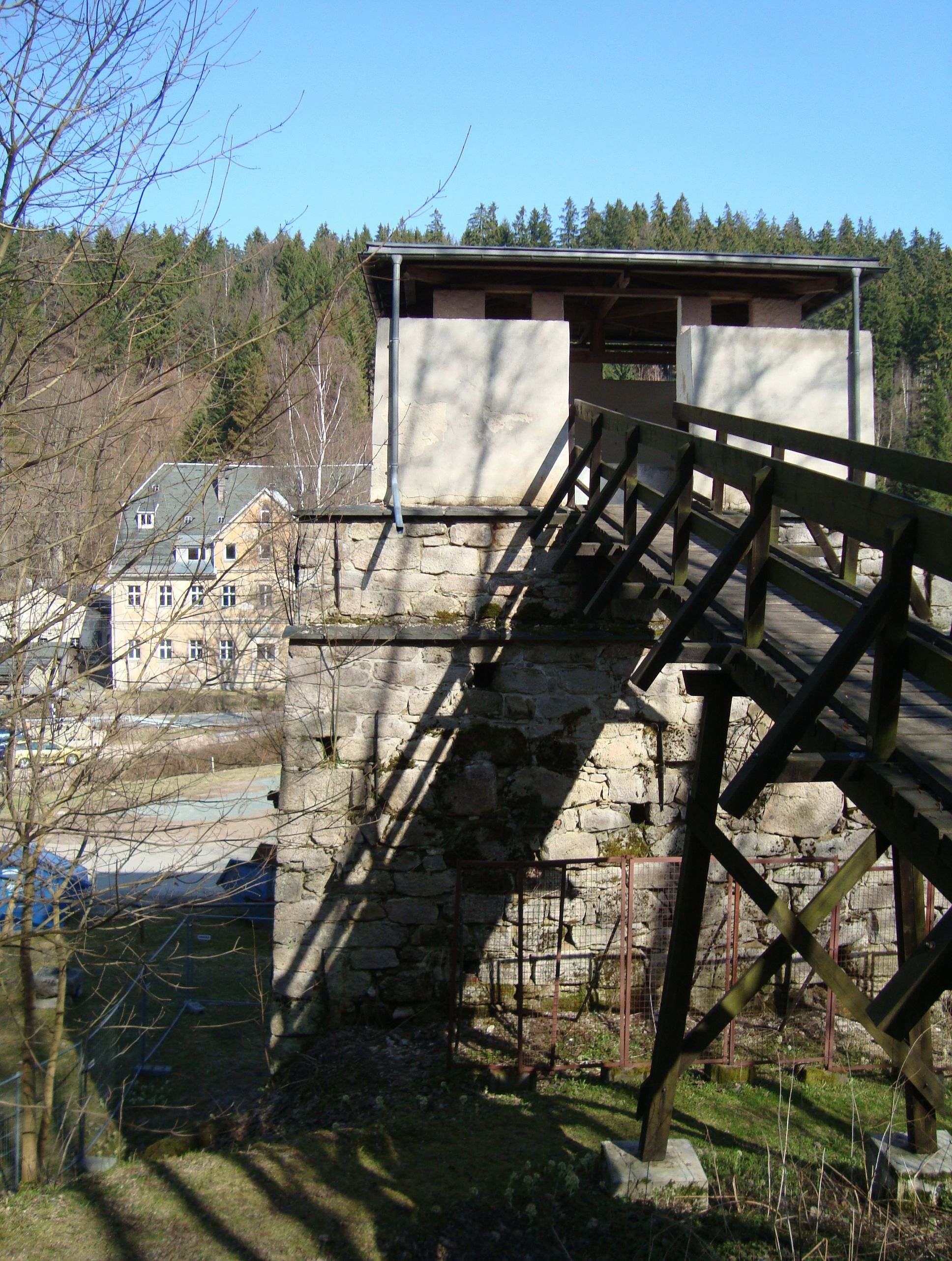 historic Blast furnace in Morgenröthe